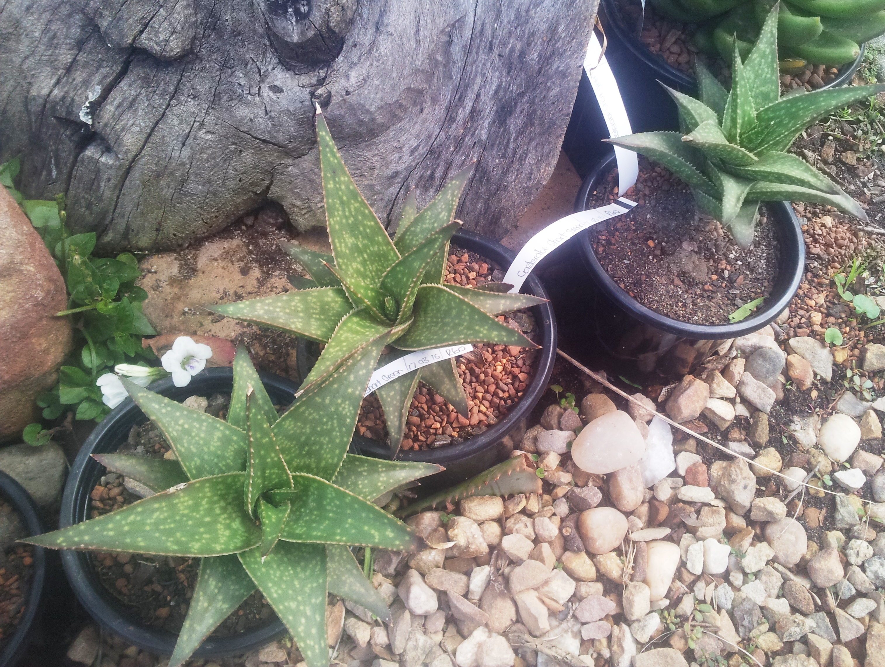 Gasteraloe Short Green - Cape Town